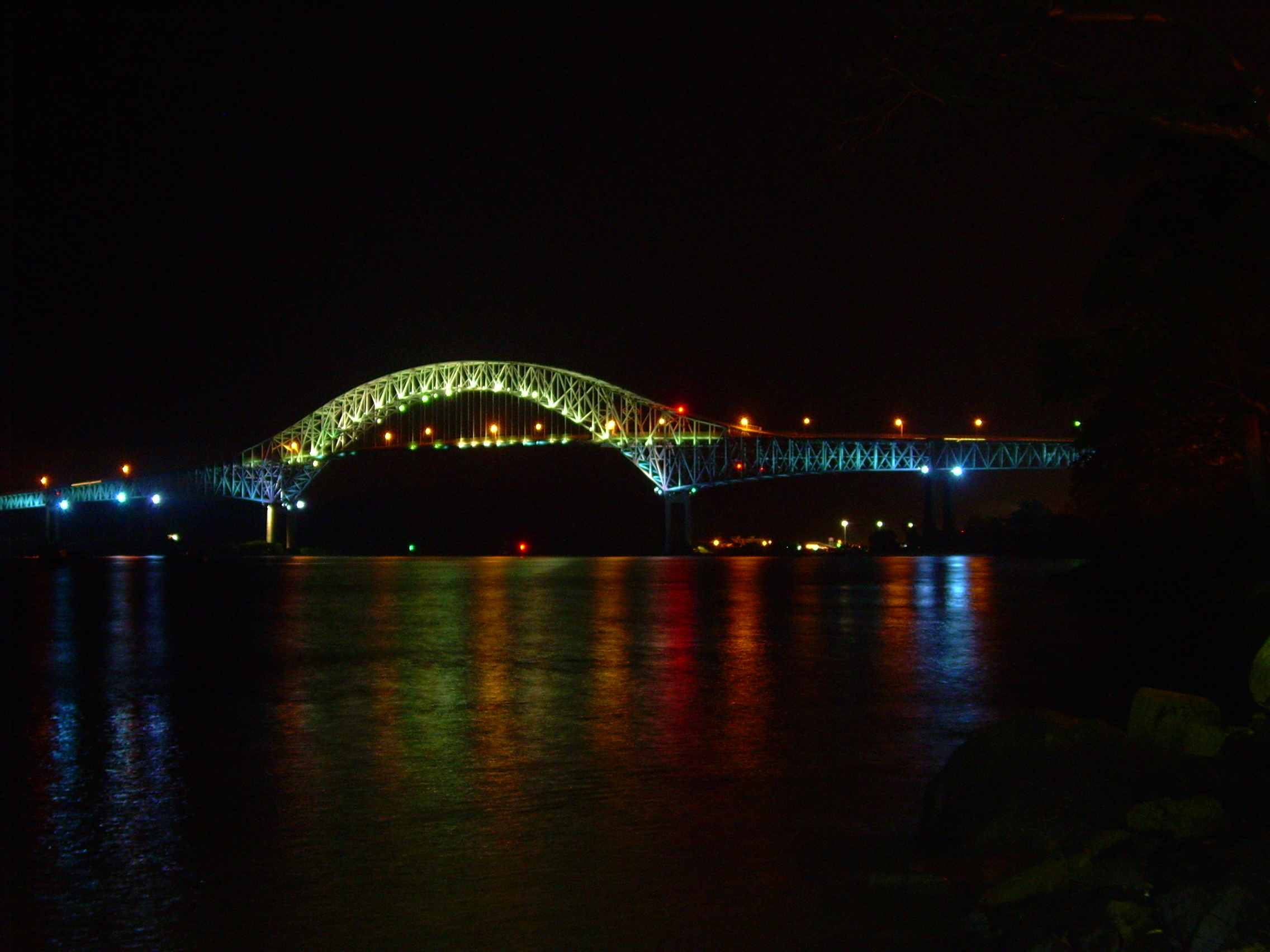 Bridge of The Americas seen at night. Panama City, Panama